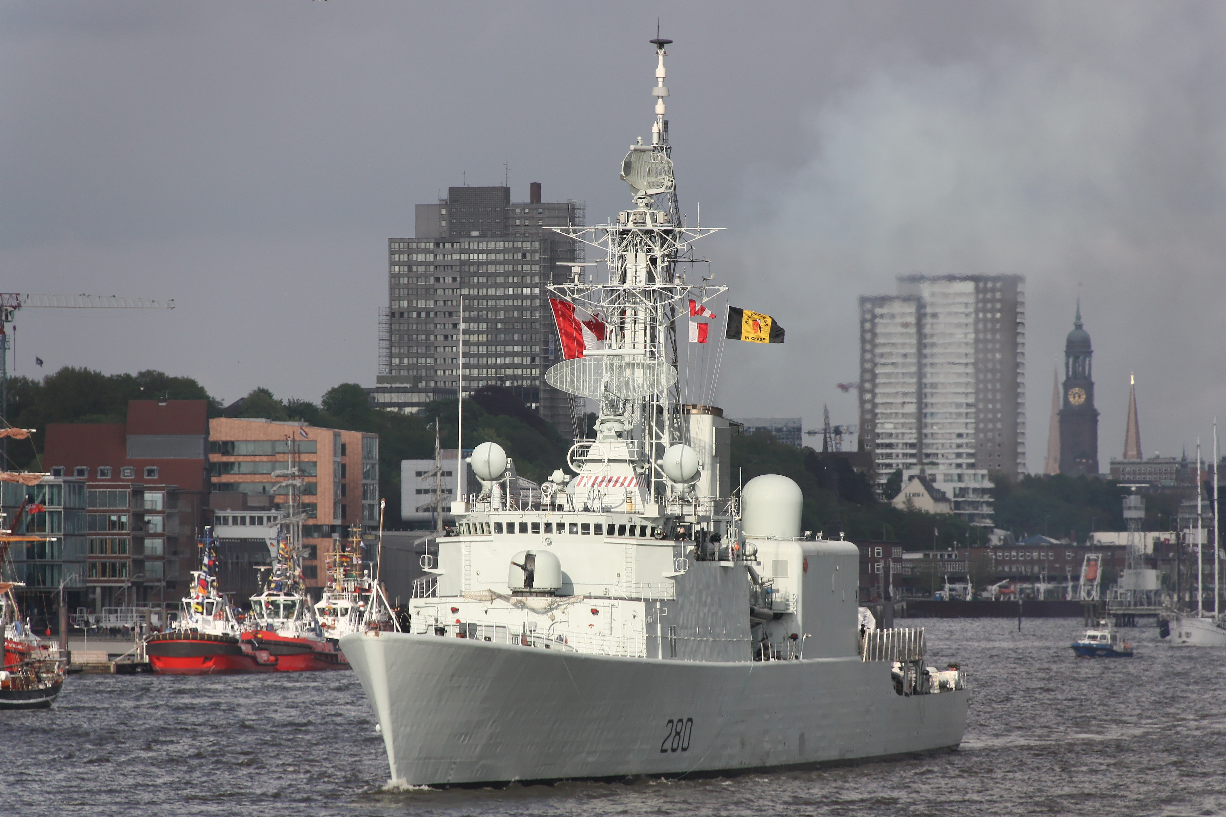 HMCS Iroquois (DDG 280) leaving the Port of Hamburg